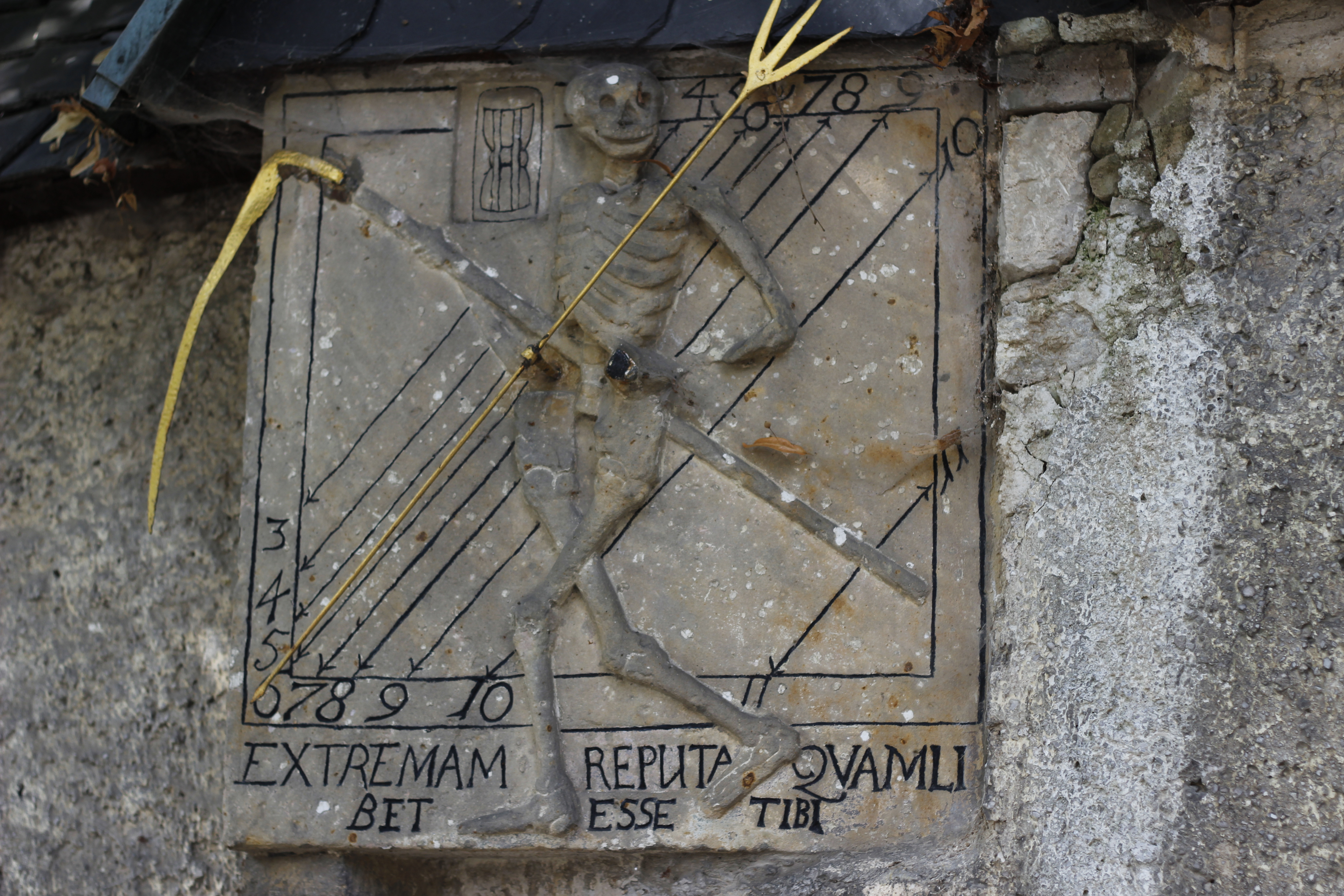 Sculpture from the so called "Sensentod" a Grim Reaper at the entrance to the church and cemetry of Gorsleben. It also includes a sun-watch. It was built in 1696 after the young wife of the local priest (Christian Webel) died, by the stonecutter Andreas Bornus.